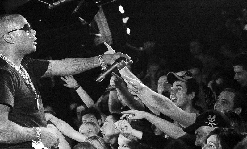 Lord Kossity at "Pod Palmą" club, Rzeszów, Poland, April 2006 (photo by Jakub Kocój).